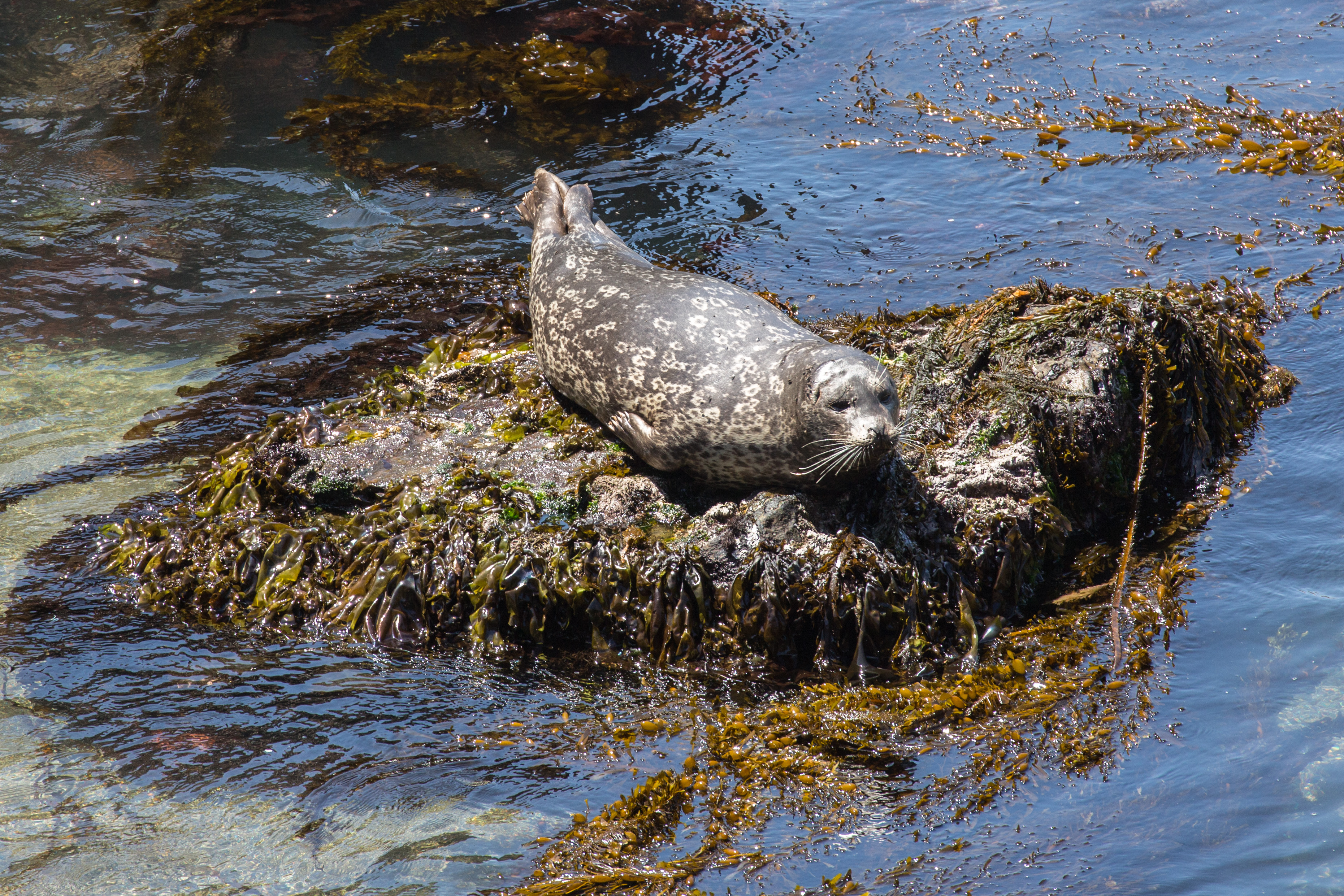 Phoca vitulina, or Habor Seal, at Point Lobos State Reserve near Monterrey in California, United States.